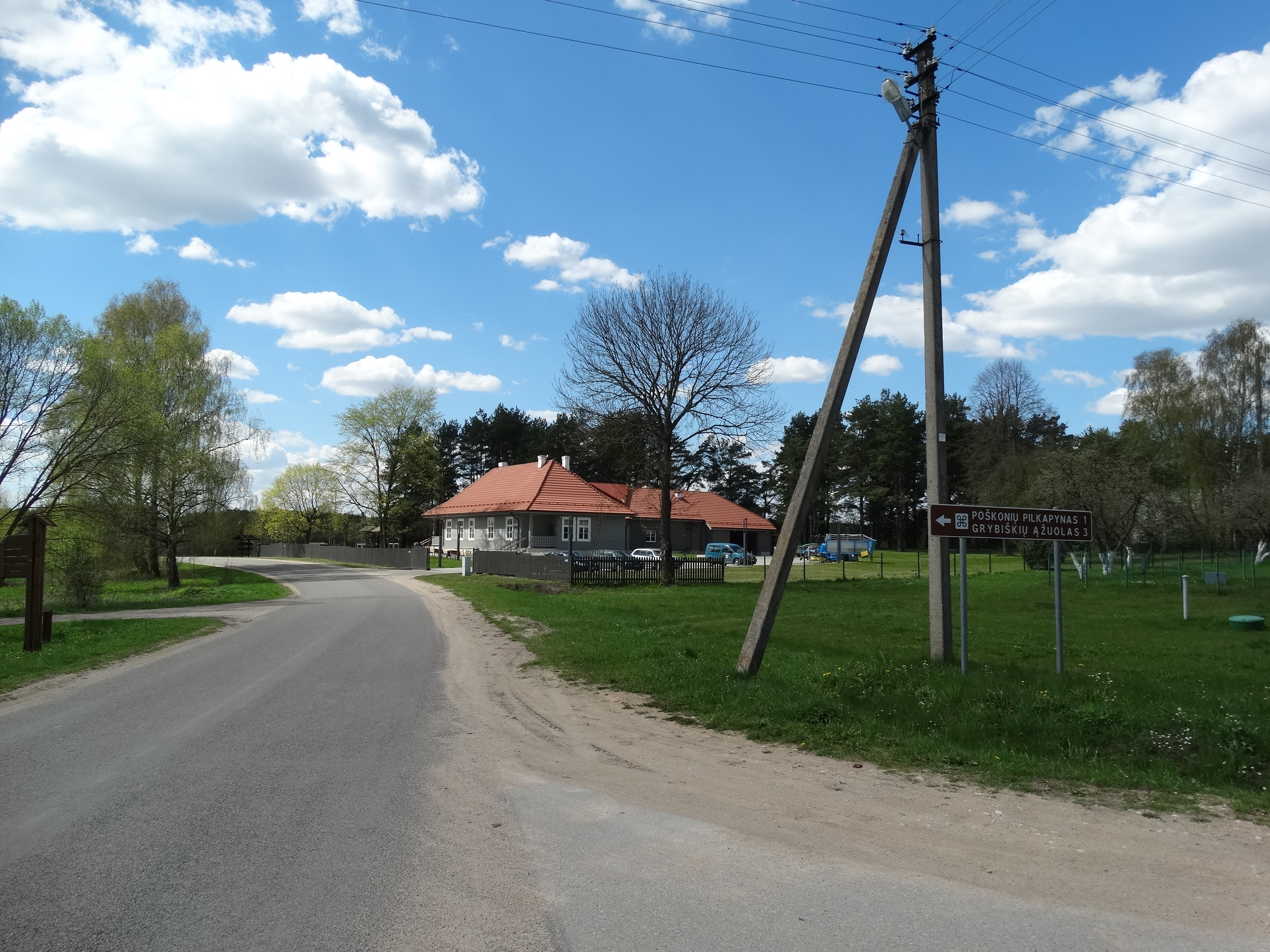 Poškonys, Šalčininkai District, Lithuania